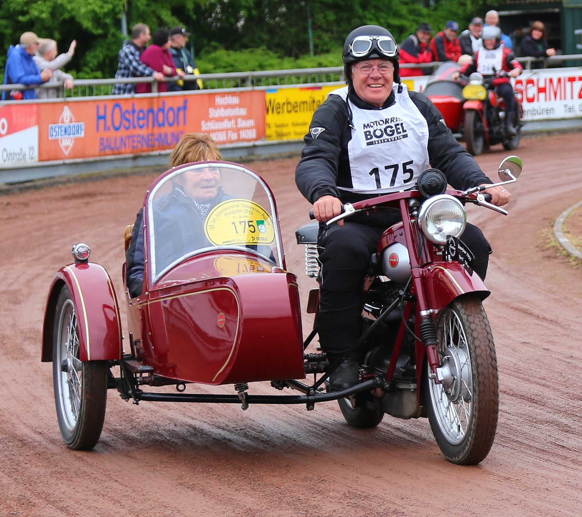 32nd international constant speedrun in Eastern Stadium (Stadion Ost) during the 33rd International Motorbike Veterans Rally with Münsterland-Trophy in Ibbenbüren, Kreis Steinfurt, North Rhine-Westphalia, Germany. Here Alex Goossens, driving his Nimbus Type C (1935) with sidecar.